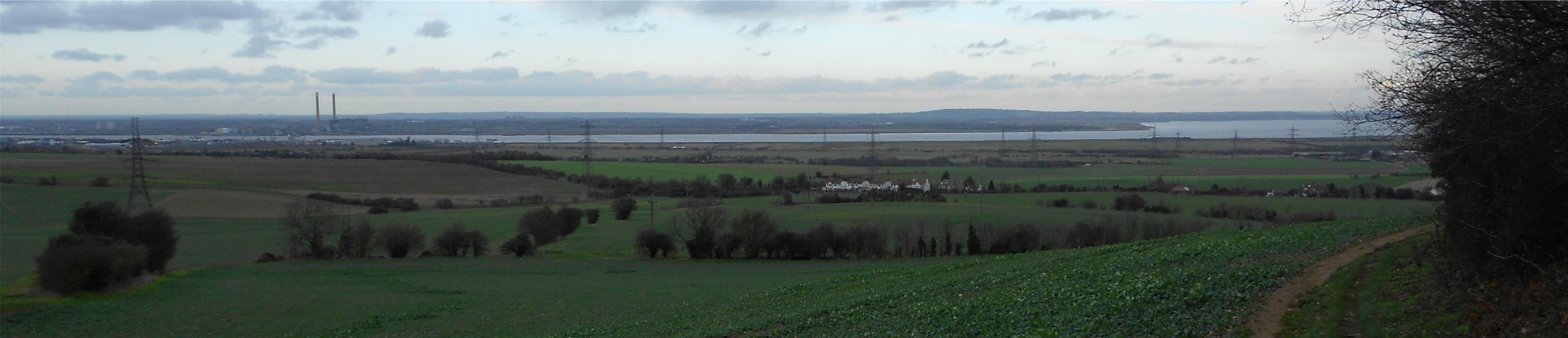 The Thames Estuary, Shorne Marshes and Tilbury Power Station from near the top of Mill Hill Lane, Shorne.